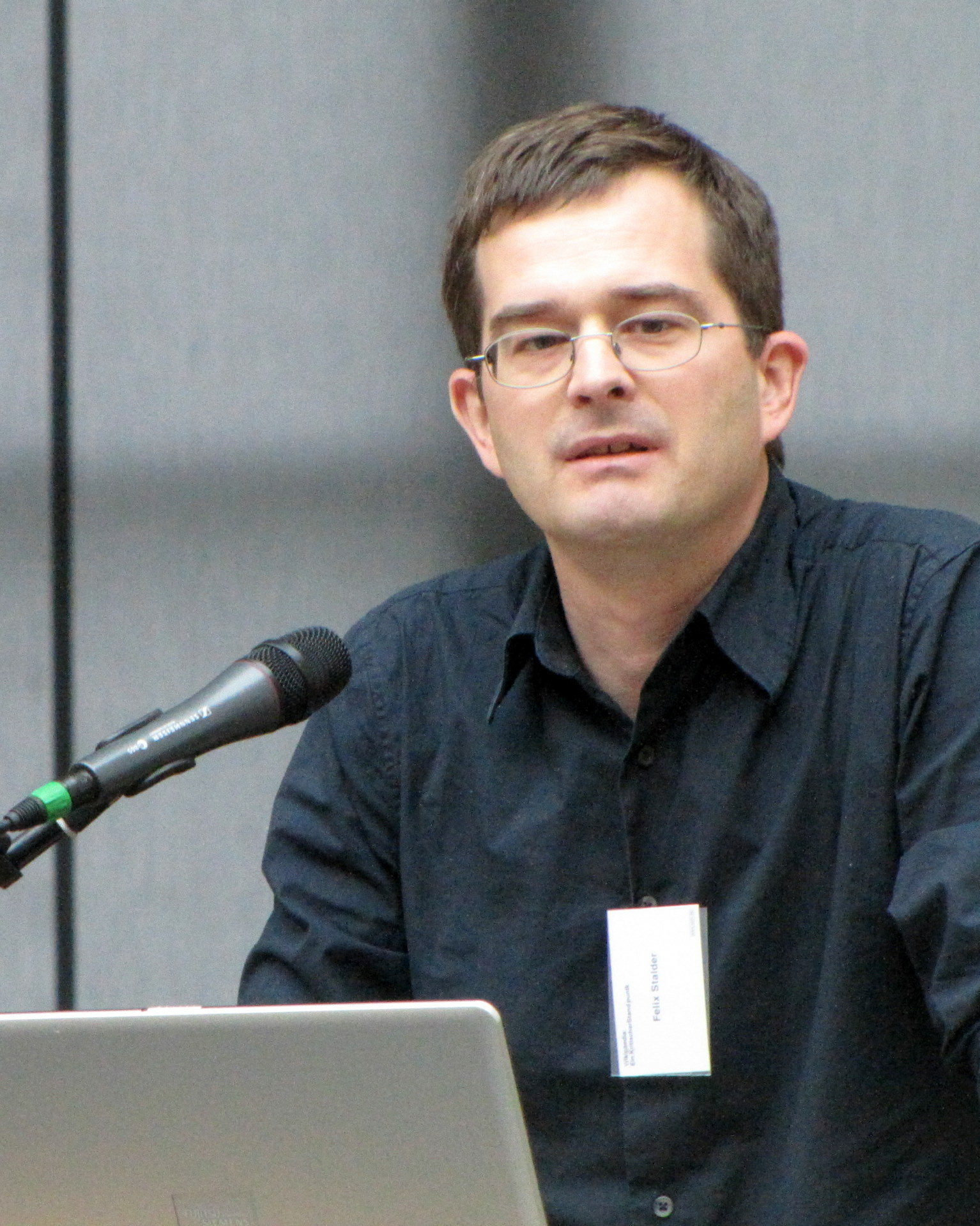 Critical Point of View (CPOV). Leipzig, September 2010. Bibliotheca Albertina. Felix Stalder.